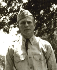 Captain Henry McMillan was the commanding officer of Company M, 124th Infantry, Florida National Guard. His unit was mobilized 25 November 1940. This photo was taken in the 1937-1940 time frame.